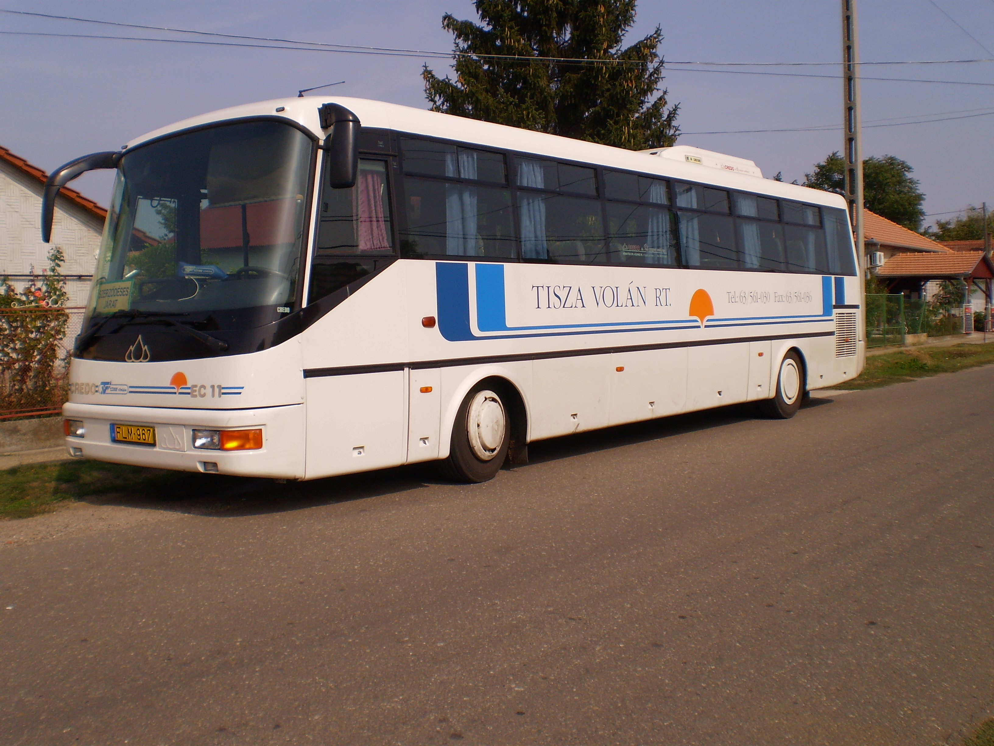 Credo EC11 bus (reg. FLM-967) in Nagymágocs, Hungary. Built 2004, Tisza Volán from Szeged operator.